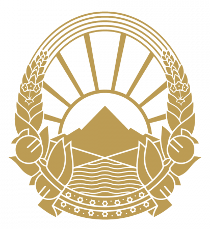 Version used by the government.